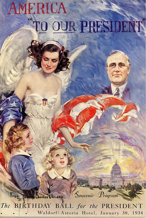 Program for the first Birthday Ball Dinner held on January 30, 1934 at the Waldorf-Astoria Hotel.